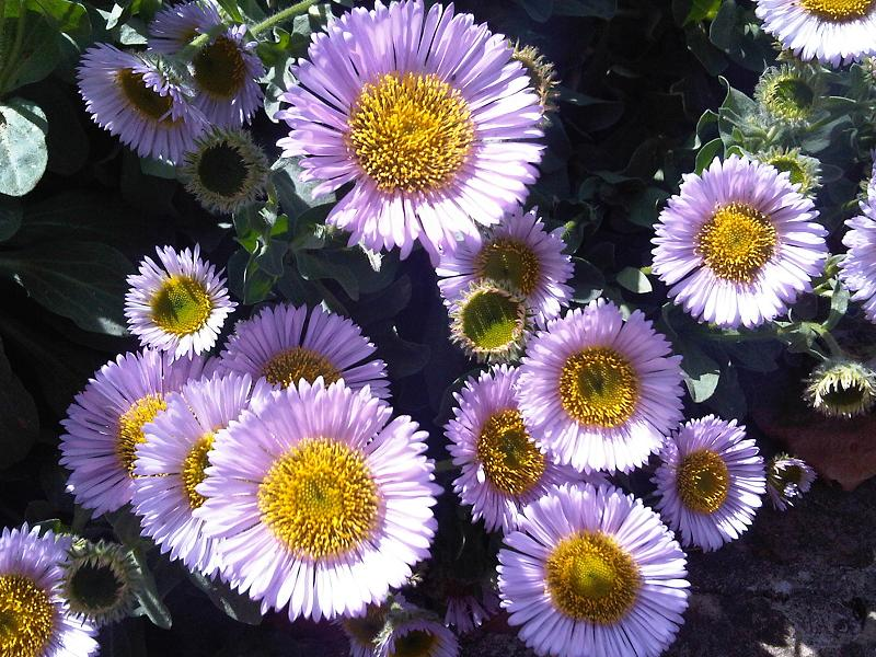 Cultivated Erigeron hybrid flowers in London, England.